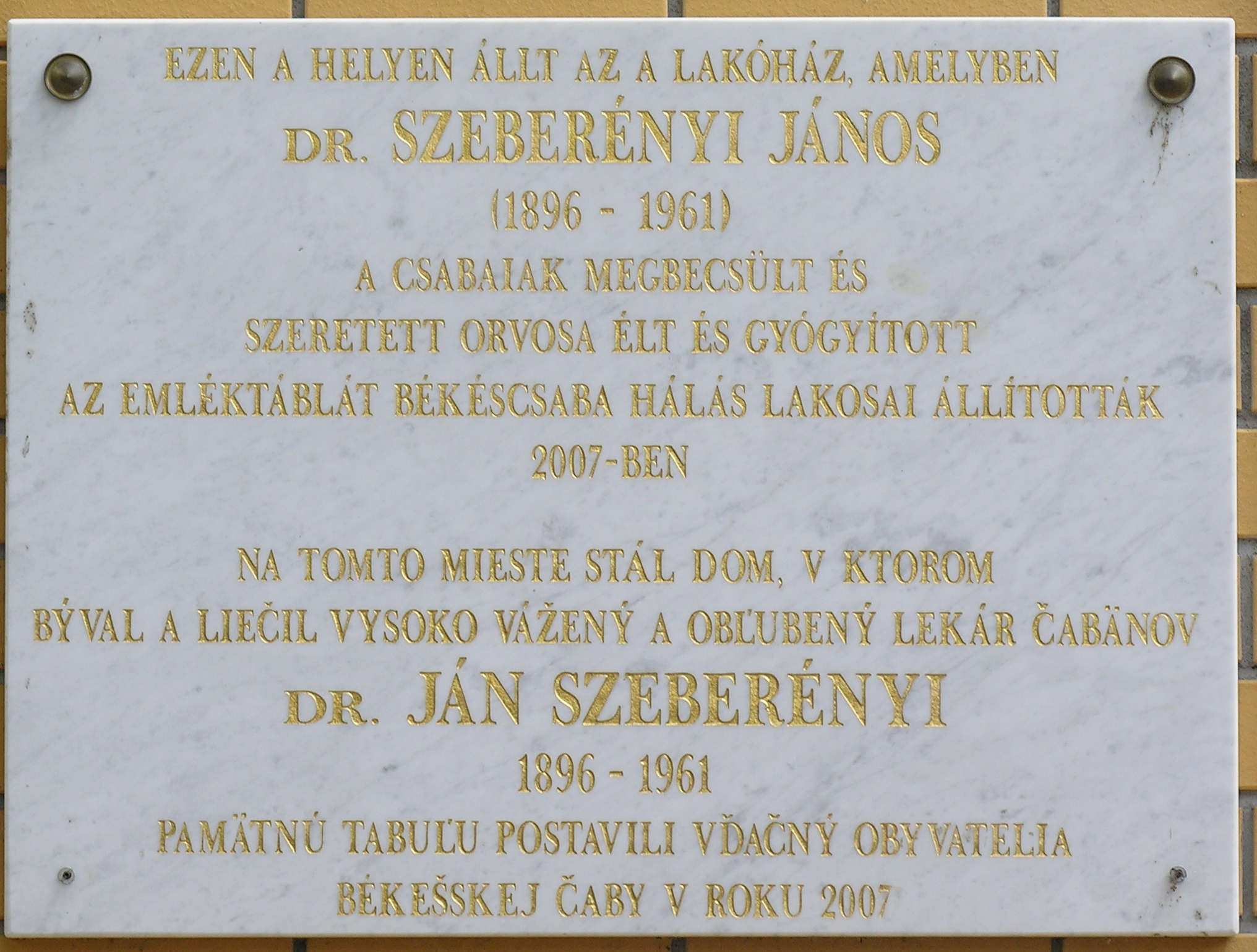 Plaque to János Szeberényi in Békéscsaba (Irányi street 3-5.)